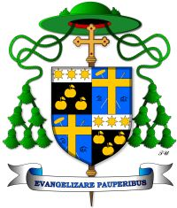 Coat of arms of Antonín Liška, Bishop of České Budějovice